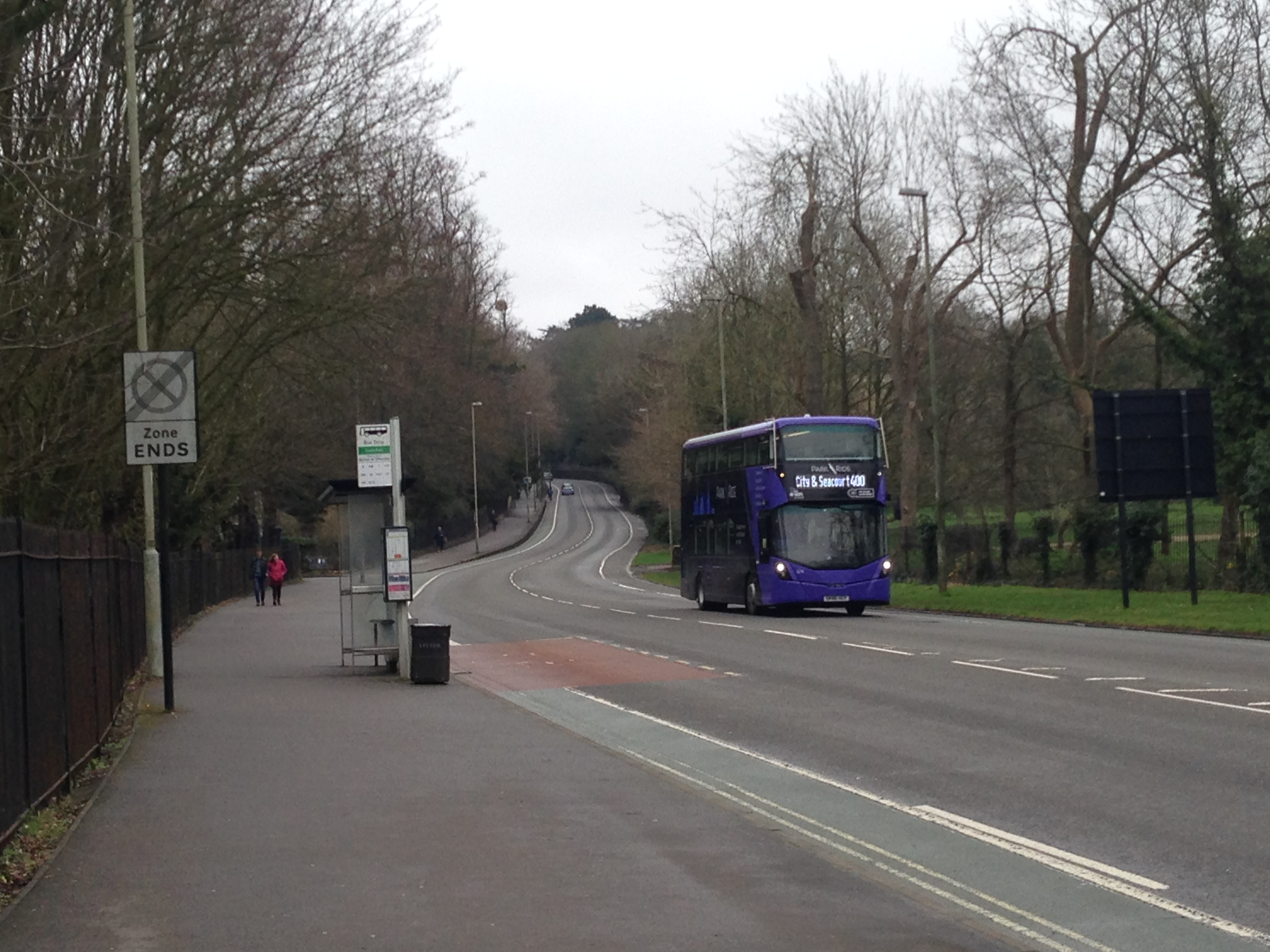 A view up Headington Hill along Headington Road, with an Oxford Park&Ride bus.